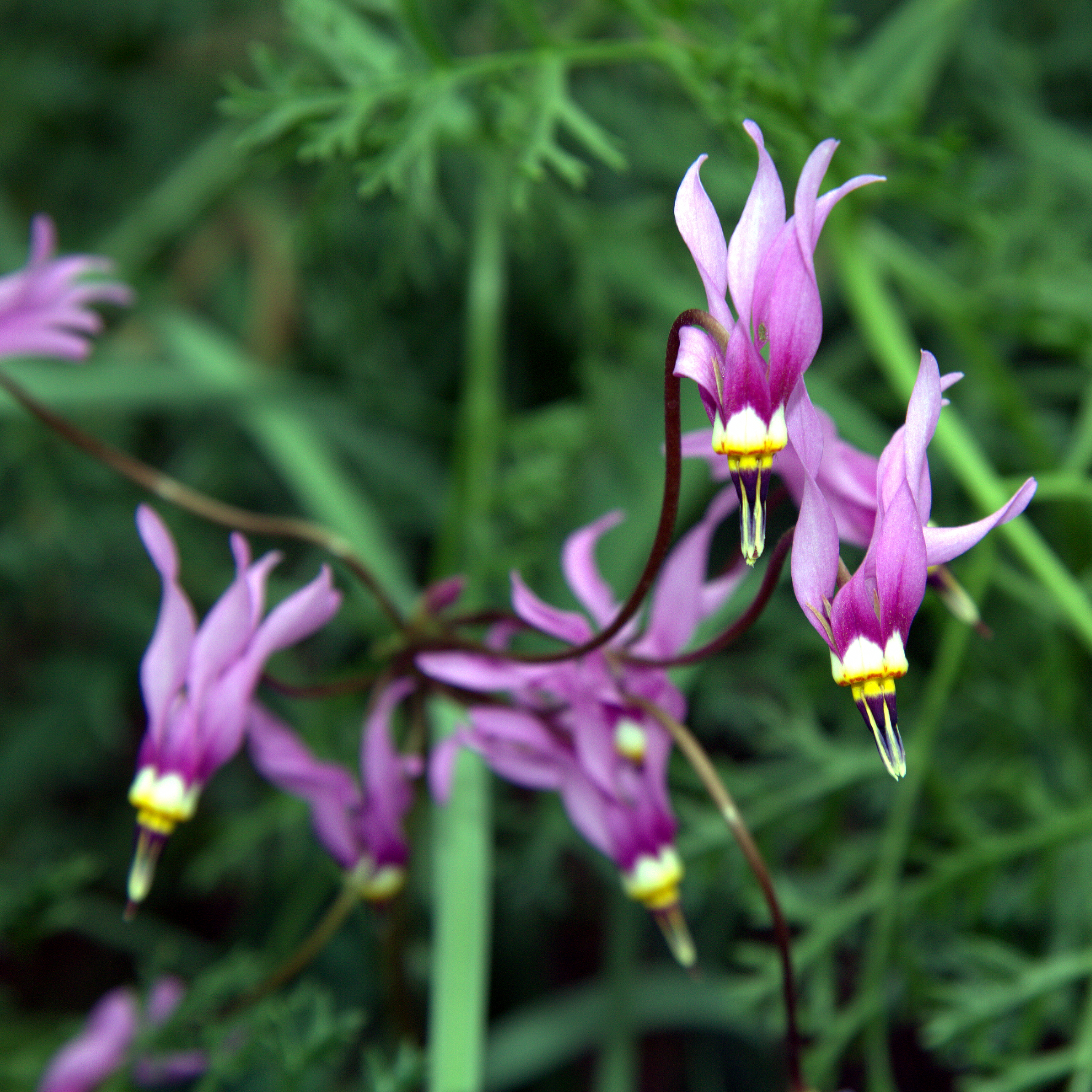 Dodecatheon conjugens